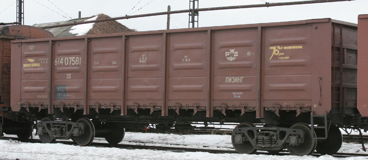 Gondola Russian Railways